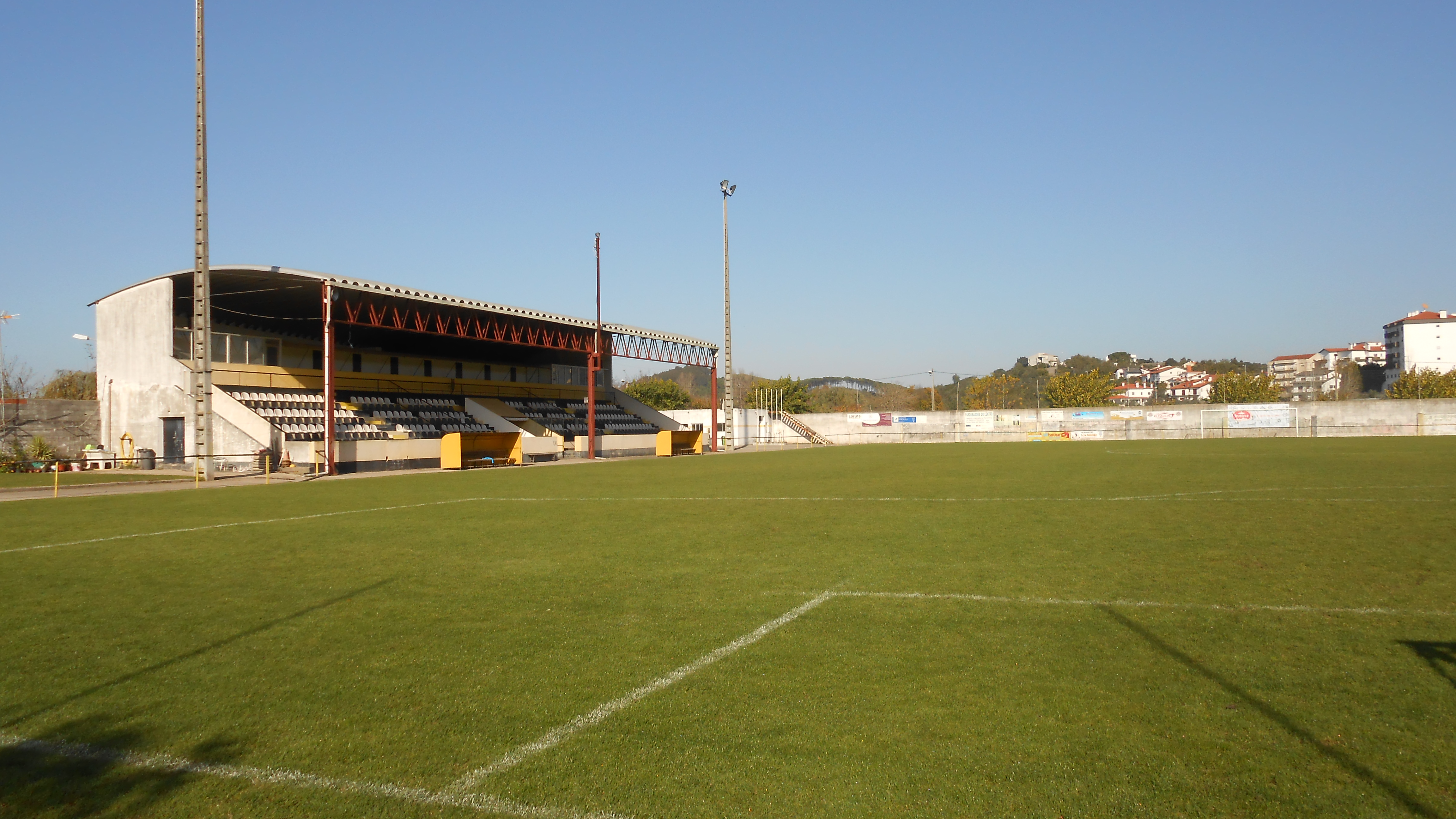 Inside "Campo Dr. António Coelho Rodrigues", the stadium of the GD Sourense football club in the portuguese town of Soure.